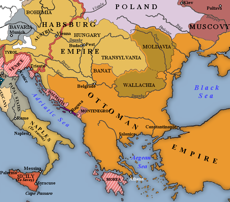 Southeast Europe in 1714